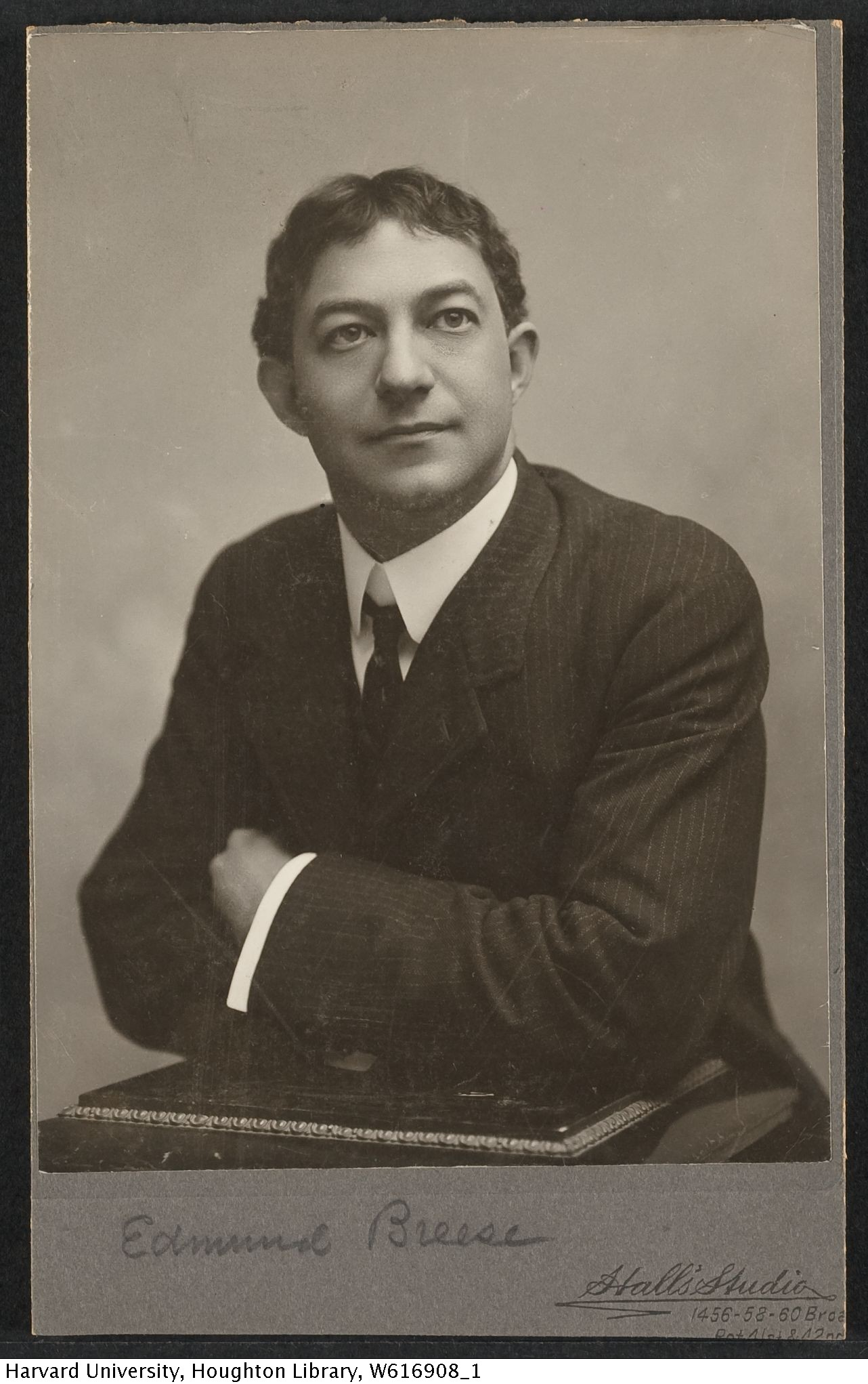 Cabinet card image of American stage and film actor Edmund Breese (1871–1936). From a collection dated 1918. TCS 1.3576, Harvard Theatre Collection, Harvard University This is a media file that Houghton Library believes to be in the public domain of the United States. This applies to a work published before January 1, 1923, or the unpublished work of an author who died more than 70 years ago. Houghton Library and Harvard University claim no rights in this photographic reproduction of the work, and the image is free to download and reproduce for any use, commercial or non-commercial, without any further permission required. We request that where these media files are used, the Houghton Library is credited as the source of the materials. Please include this citation: "TCS 1.3576, Harvard Theatre Collection, Harvard University" as its source. In the event that any of the media files infringes your rights or the rights of any third parties, or file is not properly identified or acknowledged, we would like to hear from you so we may make any necessary alterations. In this event, please . Houghton Library Parent institutionHarvard LibraryLocationCambridge, MassachusettsCoordinates42° 22′ 23.52″ N, 71° 06′ 57.24″ W Established1942Web page control : Q3719374 VIAF: 155530939 ISNI: 0000 0001 2190 4234 ULAN: 500307208 LCCN: n80097499 NLA: 36125461 WorldCat